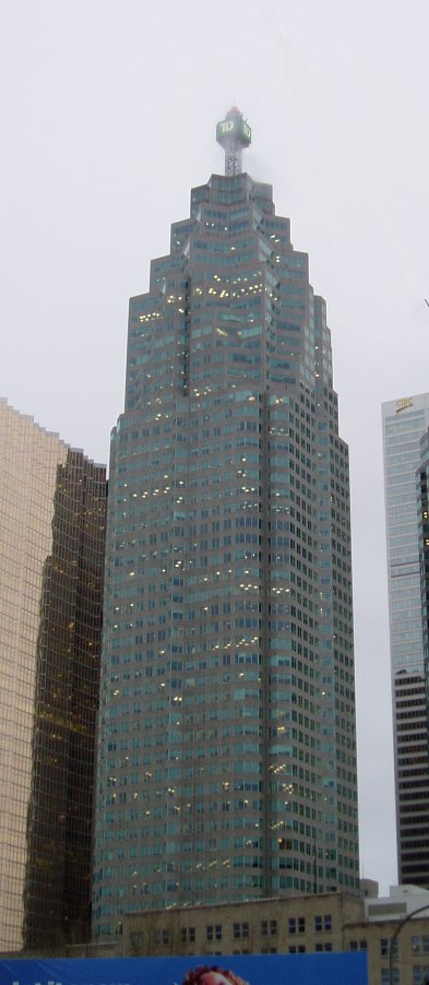 Canada Trust Tower (Toronto), taken by SimonP